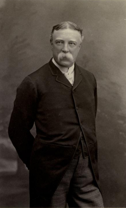 Frontispiece image of Fairman Rogers from F. R. 1833-1900 (1903) by Horace Howard Furness